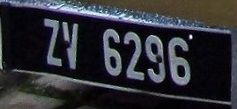 Irish oldtimer plate